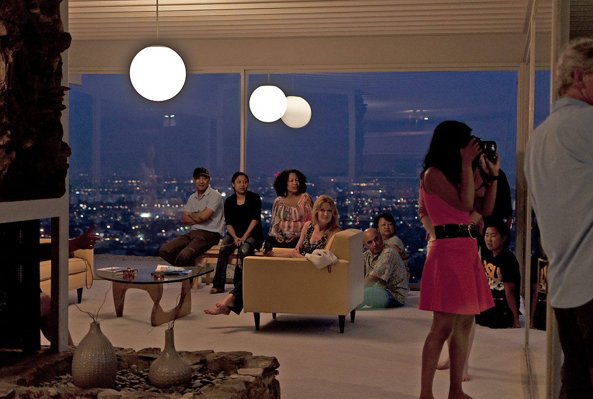 The Case Study House No. 22 — Stahl House — Hollywood Hills, Los Angeles, California.